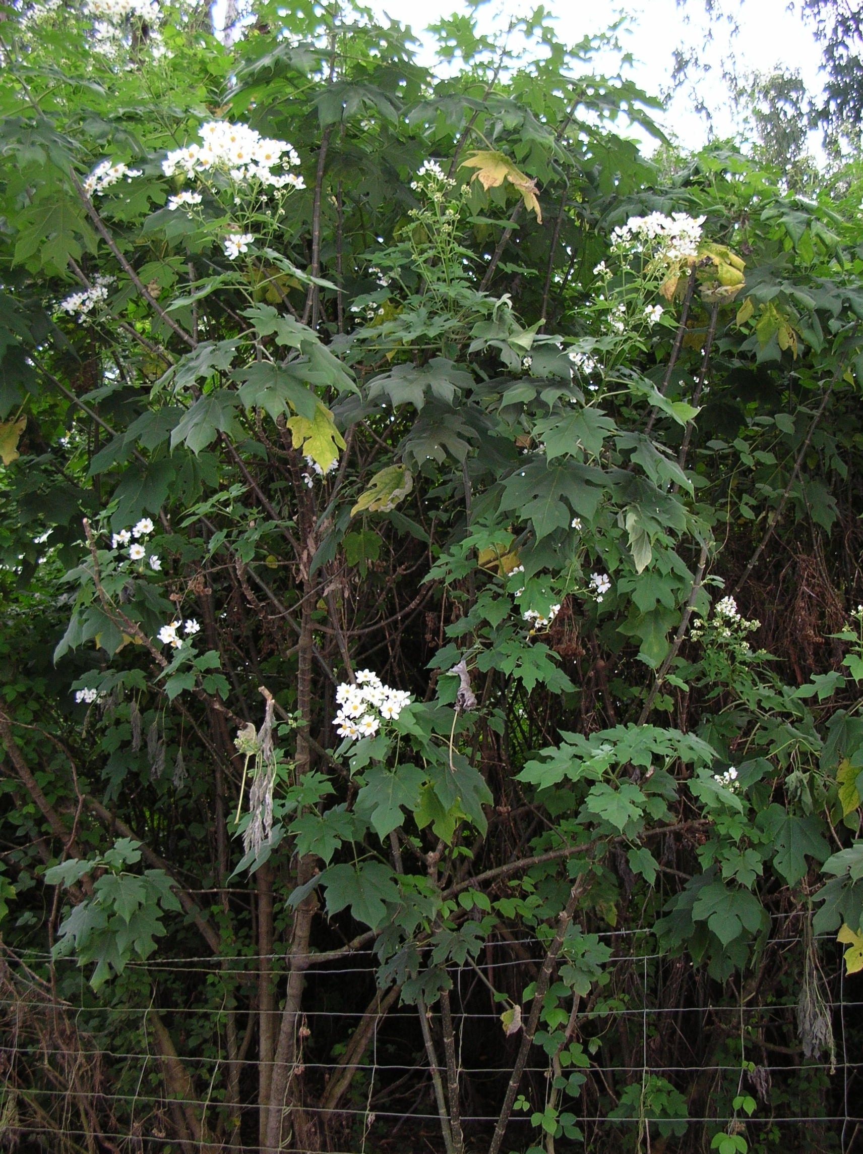 Montanoa hibiscifolia (habit). Location: Maui, Ulupalakua